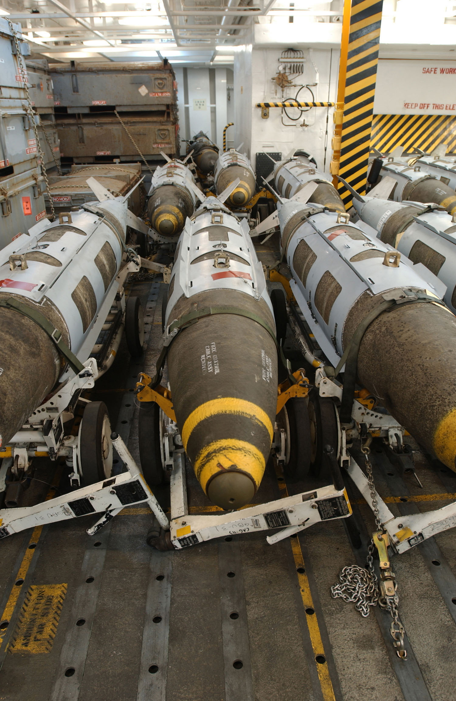 Mediterranean Sea (Feb. 28, 2003) -- 2000 pound Joint Direct Attack Munition (JDAM) GBU-32 bombs stand ready for transport and loading on air wing aircraft, in a weapons magazine aboard USS Harry S. Truman (CVN 75). Truman and her embarked Carrier Air Wing Three (CVW-3) are on a regularly scheduled six-month deployment in support of Operation Enduring Freedom. U.S. Navy photo by Photographer's Mate 3rd Class Danny Ewing Jr. (RELEASED)